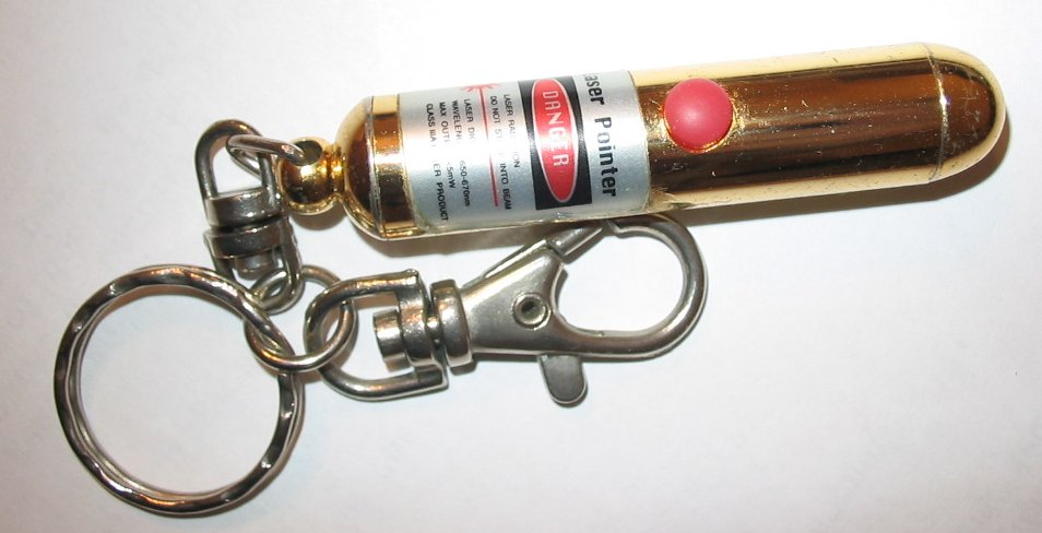 Laser Pointer